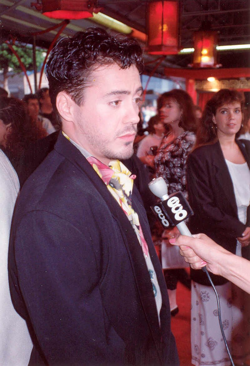 Photo taken at the AIR AMERICA movie premiere 1990 - Permission granted to copy, publish or post but please credit "photo by Alan Light" if you can